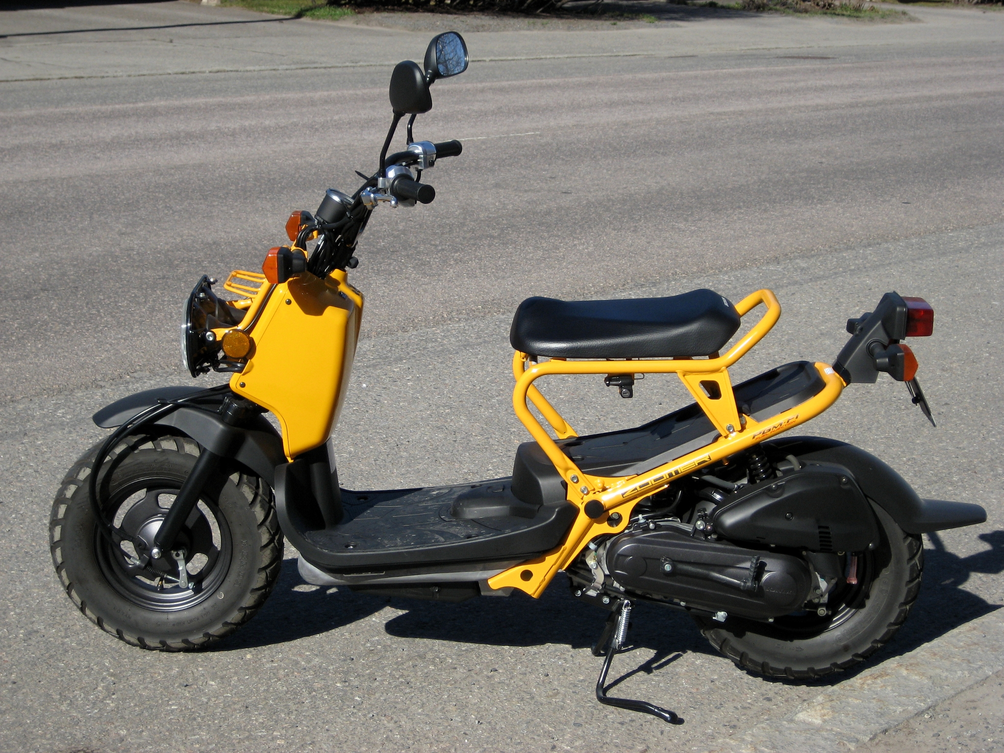 Honda Zoomer 50cc motor scooter European model with fuel injection.